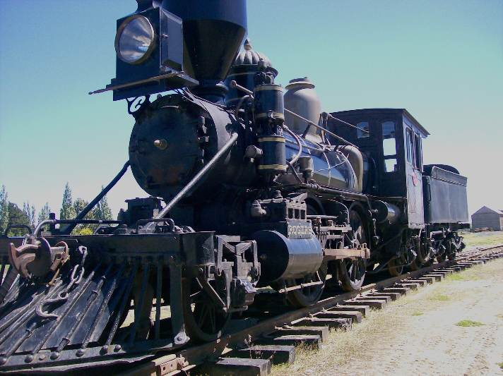 The Original Kingston Flyer at Croydon Aircraft Museum Mandeville Southland NZ Classic USA Train Technology